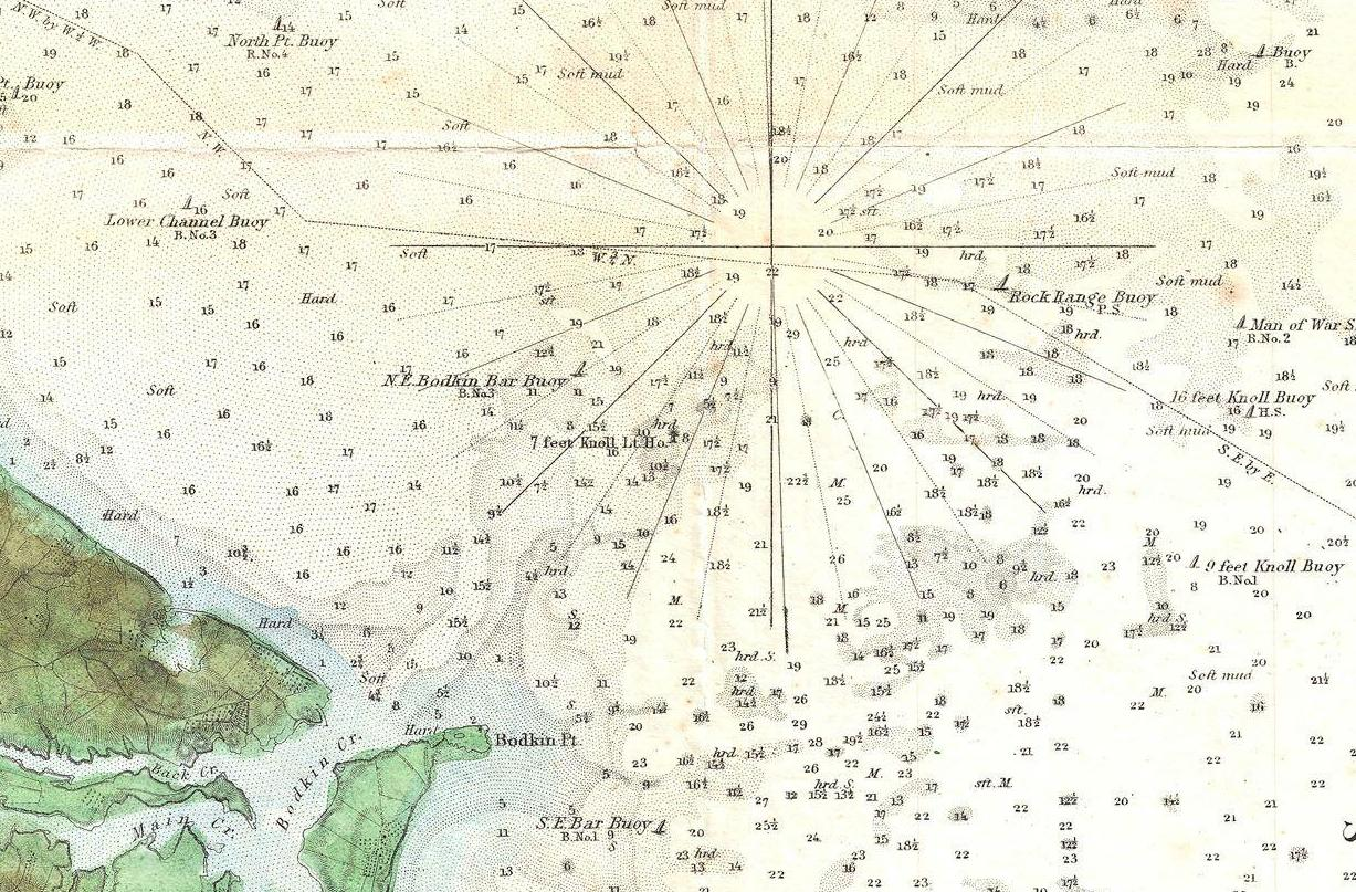 This is an uncommon 1856 U.S. Coast Survey Chart or Map of Patapsco River, the Chesapeake Bay, and approaches to Baltimore, Maryland. Covers from Baltimore in the northwest, eastward as far as Fairlee Creek, and southward as far as the Magothy River. Offers considerable detail throughout, but especially inland, where farms, roads, streets, and even some individual buildings are noted. Countless depth soundings throughout. Notes on tides, under sea dangers, and sailing instructions in the lower left quadrant. The Triangulation for this survey was completed by J. Ferguson. The topography is the work of F. H. Gerdes, R. D. Cutts, H. J. Whiting, and J. B Bluck. The Hydrography was accomplished by a party under the command of G. M. Bache, C. H. Mc Blair, and R. Wainwright. The construction of this chart was supervised by both A.D. Bache and F. R. Hassler, two of the most important and influential early superintendents of the U.S. Coast Survey. Published in the 1856 edition of the Superintendent's Report .